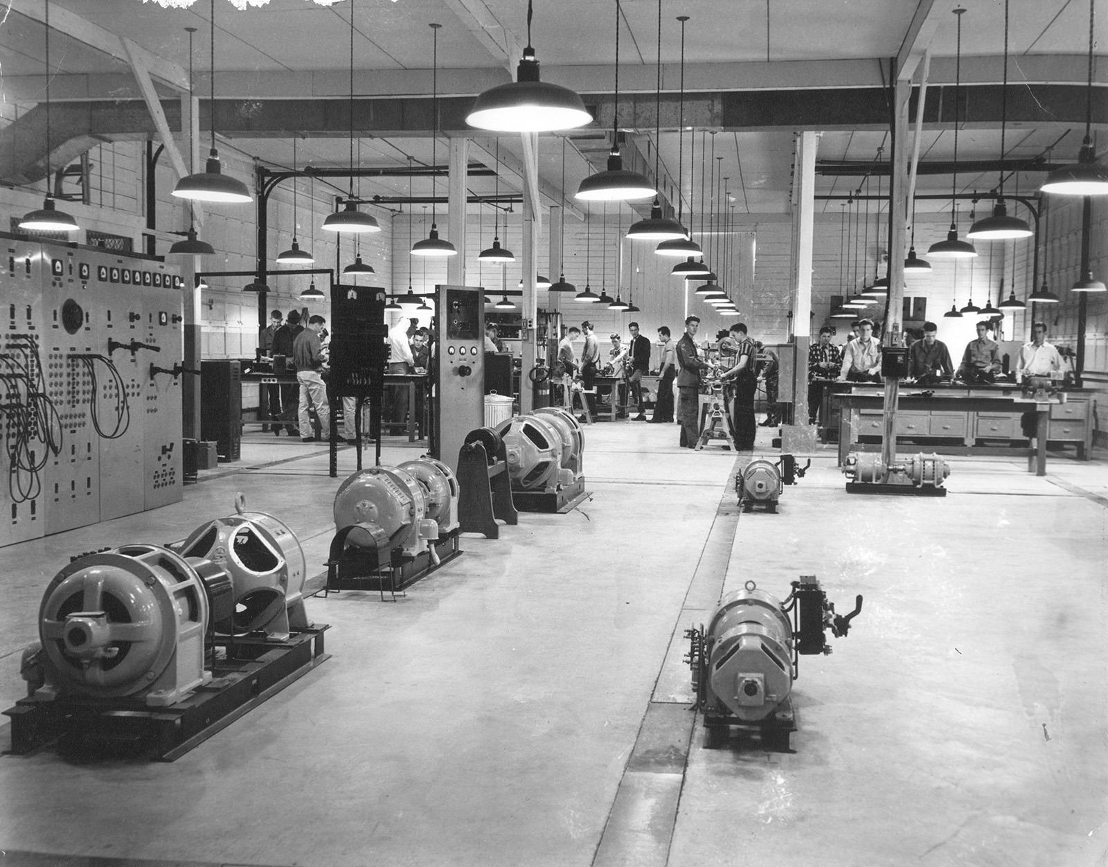 Electrical Shop, looking east, North Texas Agricultural College.